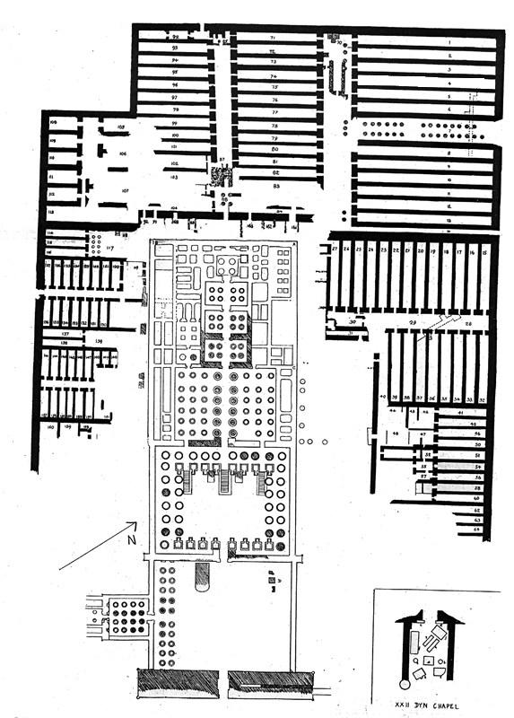 Plan of the ancient Egyptian Ramesseum temple, by James E. Quibell.